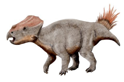 Ajkaceratops